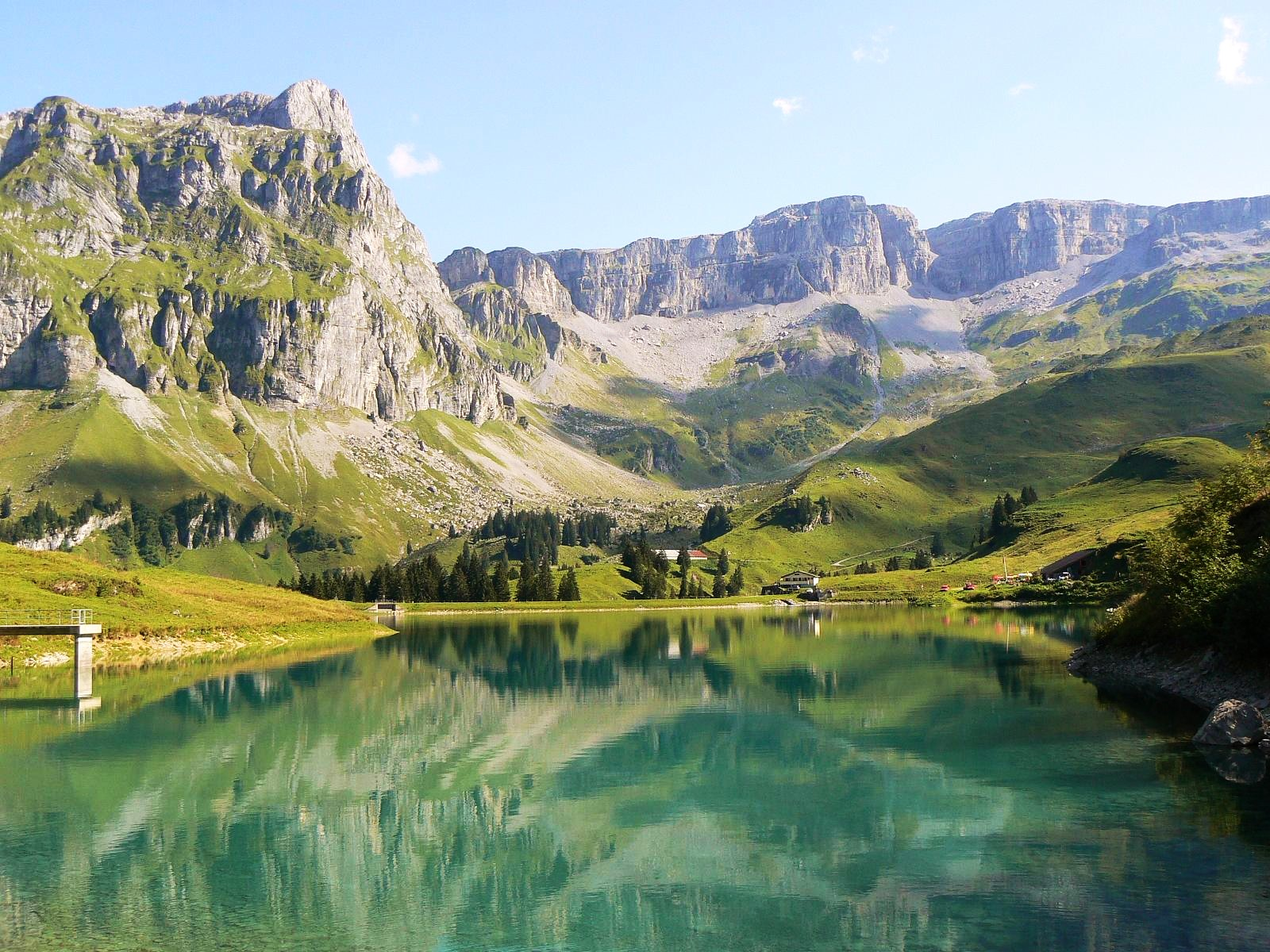 Waldisee (1400m) near Muotathal in the canton of Schwyz, north of the Glatten mountain